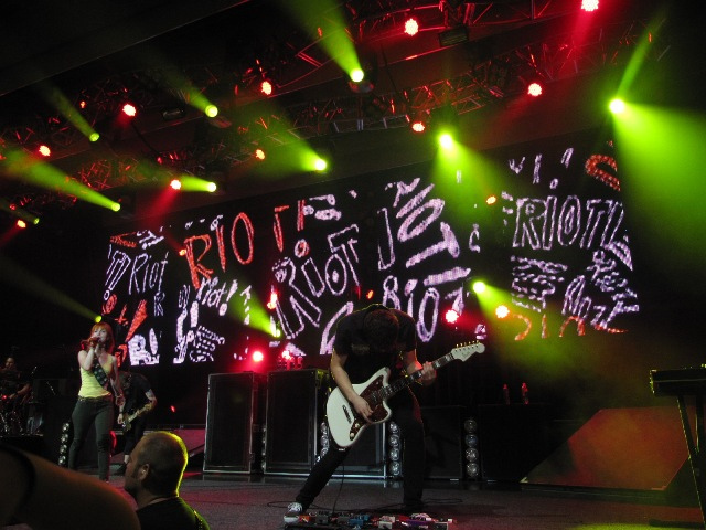 Paramore at Honda Civic Tour 2010